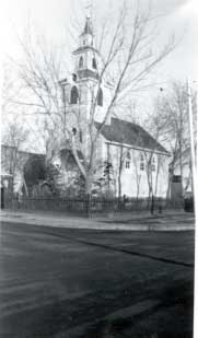 Serbian Orthodox Church in Regina, Saskatchewan, Canada. Originally built in 1916 at 1844 McAra Street, the building was moved in 1933 to 1775 Winnipeg Street in the heart of the neighbourhood known as "Germantown".